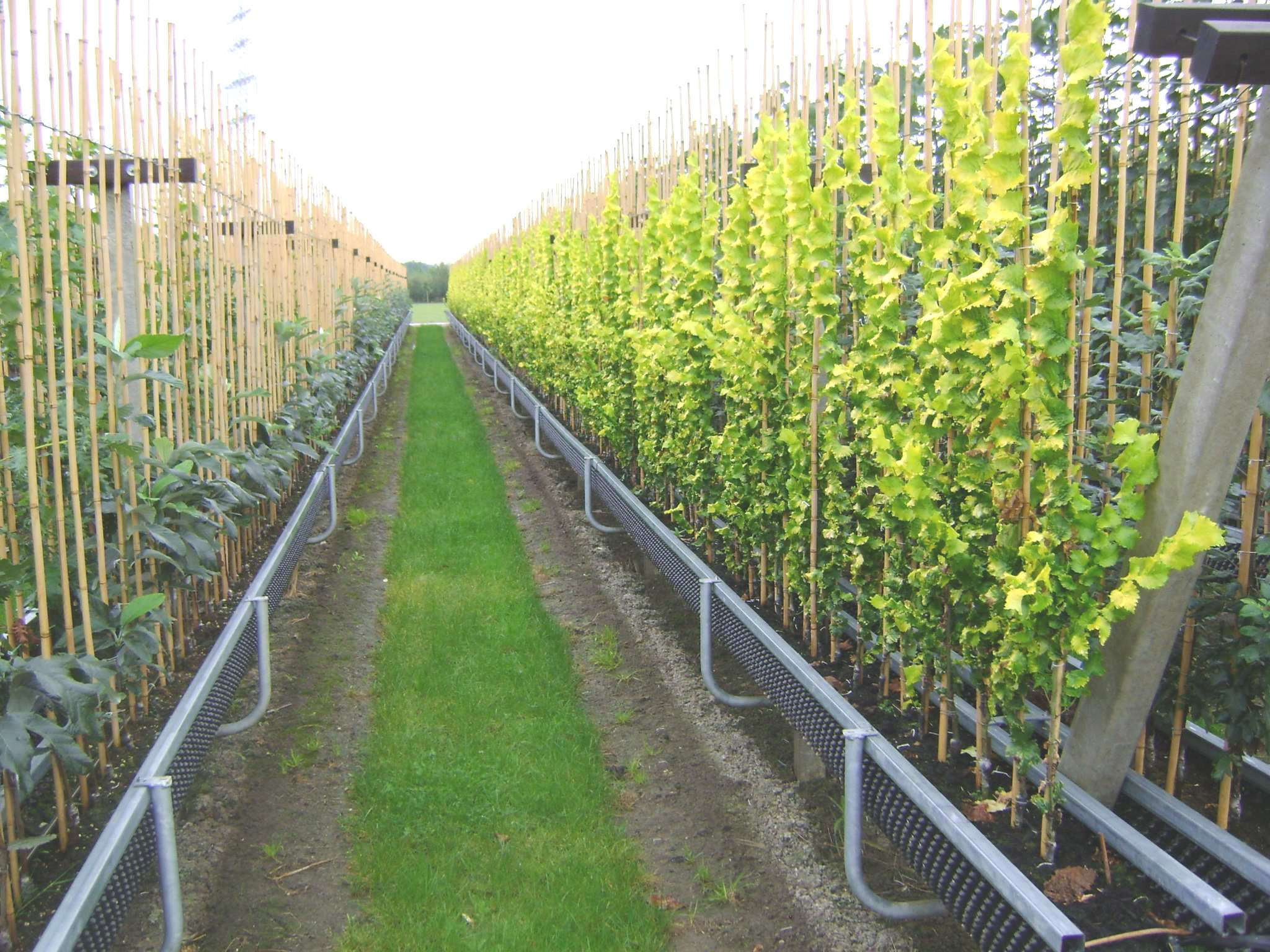 A picture showing the growing of trees using gutters. Gutters reduce the amount of water, plant nutrients and pesticides that need to be used. The treenursery shown here was set up by : Wageningen UR/Praktijkonderzoek Plant & Omgeving B.V. Sector Bloembollen, Boomkwekerij & Fruit Prof. van Slogterenweg 2, 2161 DW Lisse Postbus 85, 2160 AB Lisse the Netherlands Website of the research project: Close-up of image: Permission for use of this image at wikimedia commons was given by Ton Baltissen